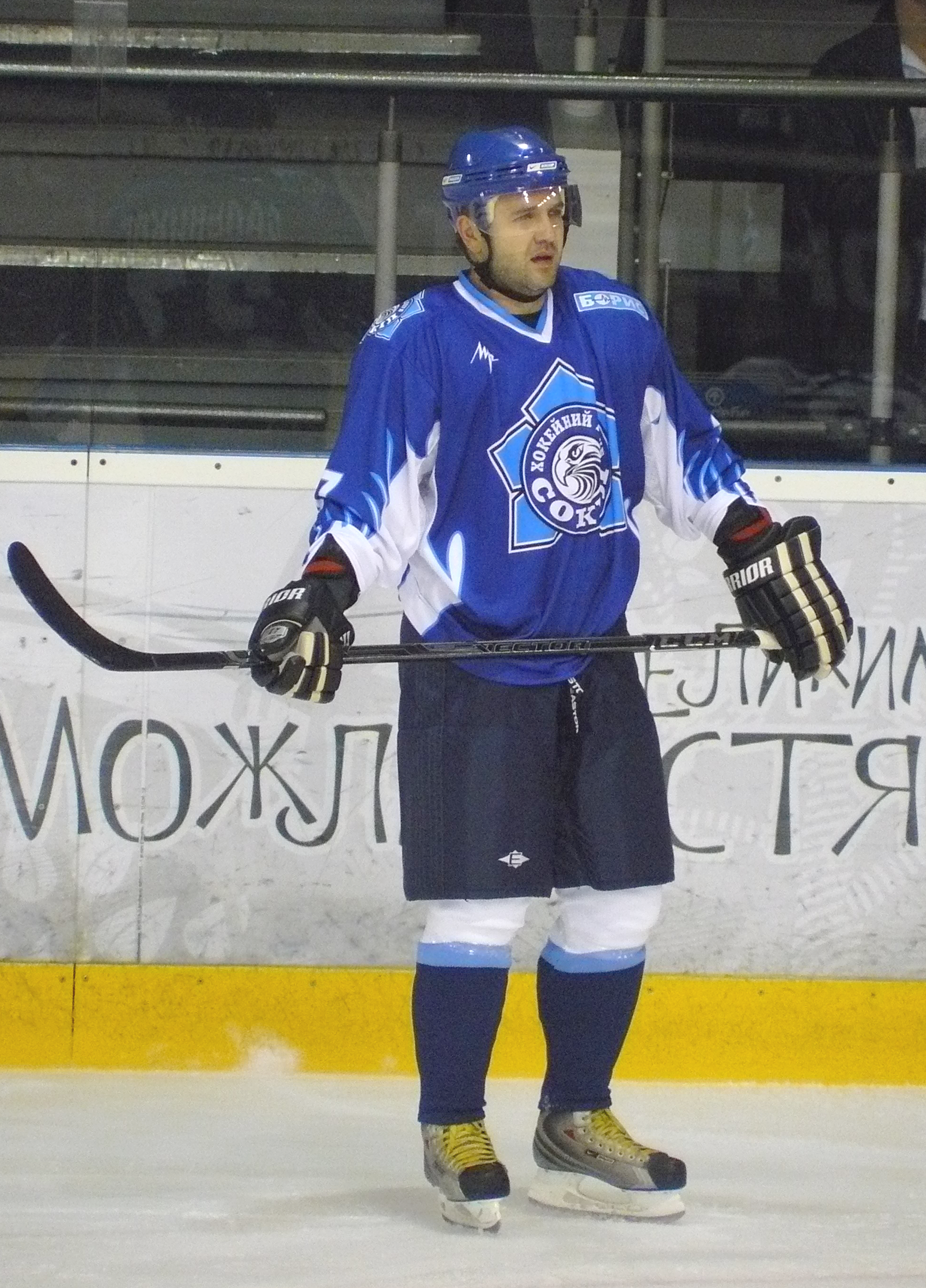 Forward Roman Salnikov #37 of the Sokil Kyiv during the Belarus Extraliga game against the Yunost Minsk on September 15, 2010 at the Terminal Arena in Brovary, Ukraine. Yunost Minsk won the game 2:1.